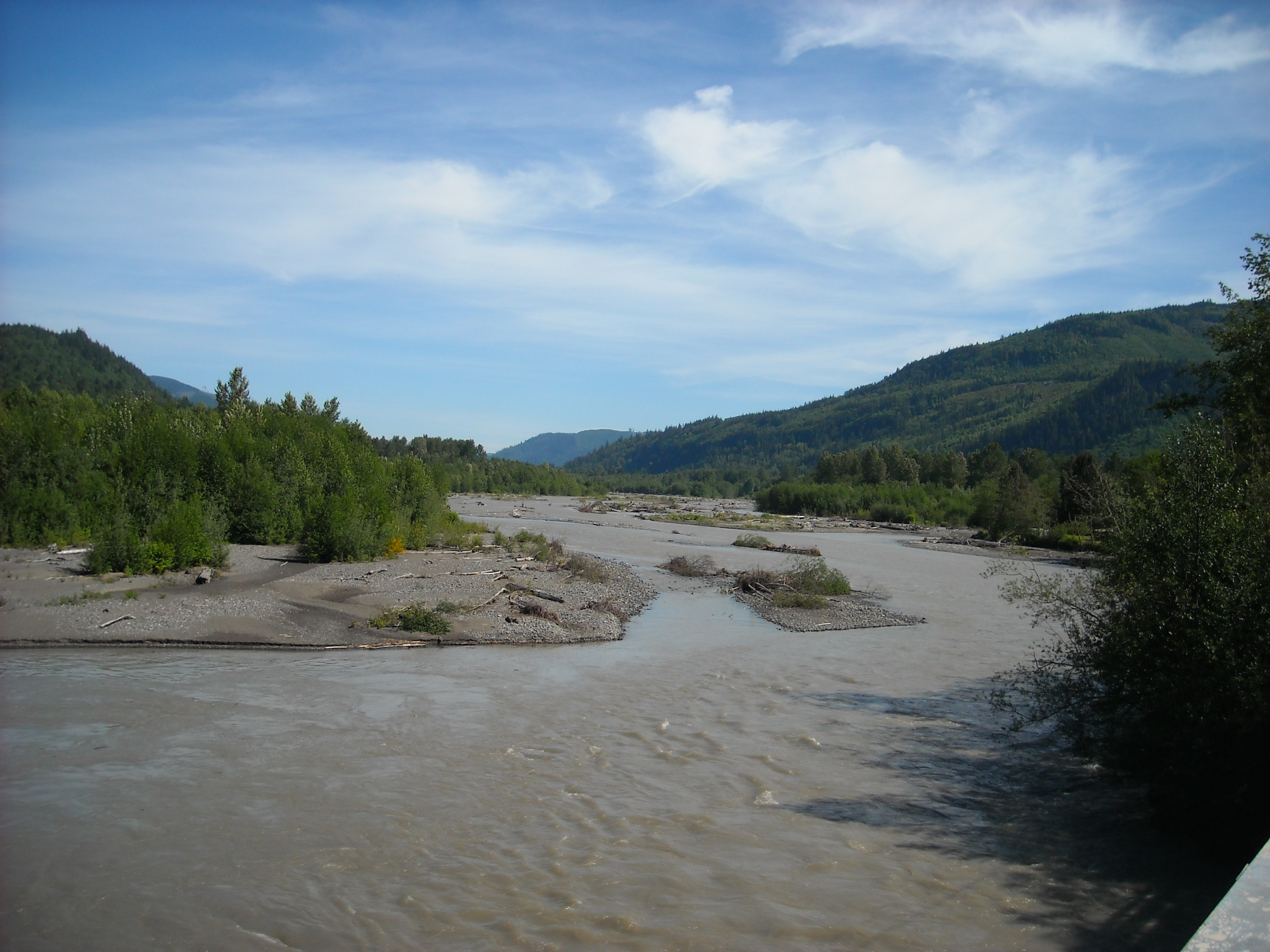 Looking upstream from the Mosquito Lake Road Bridge over the silty North Fork Nooksack River just above its confluence with the Middle Fork on May 30th of 2009 during high water.